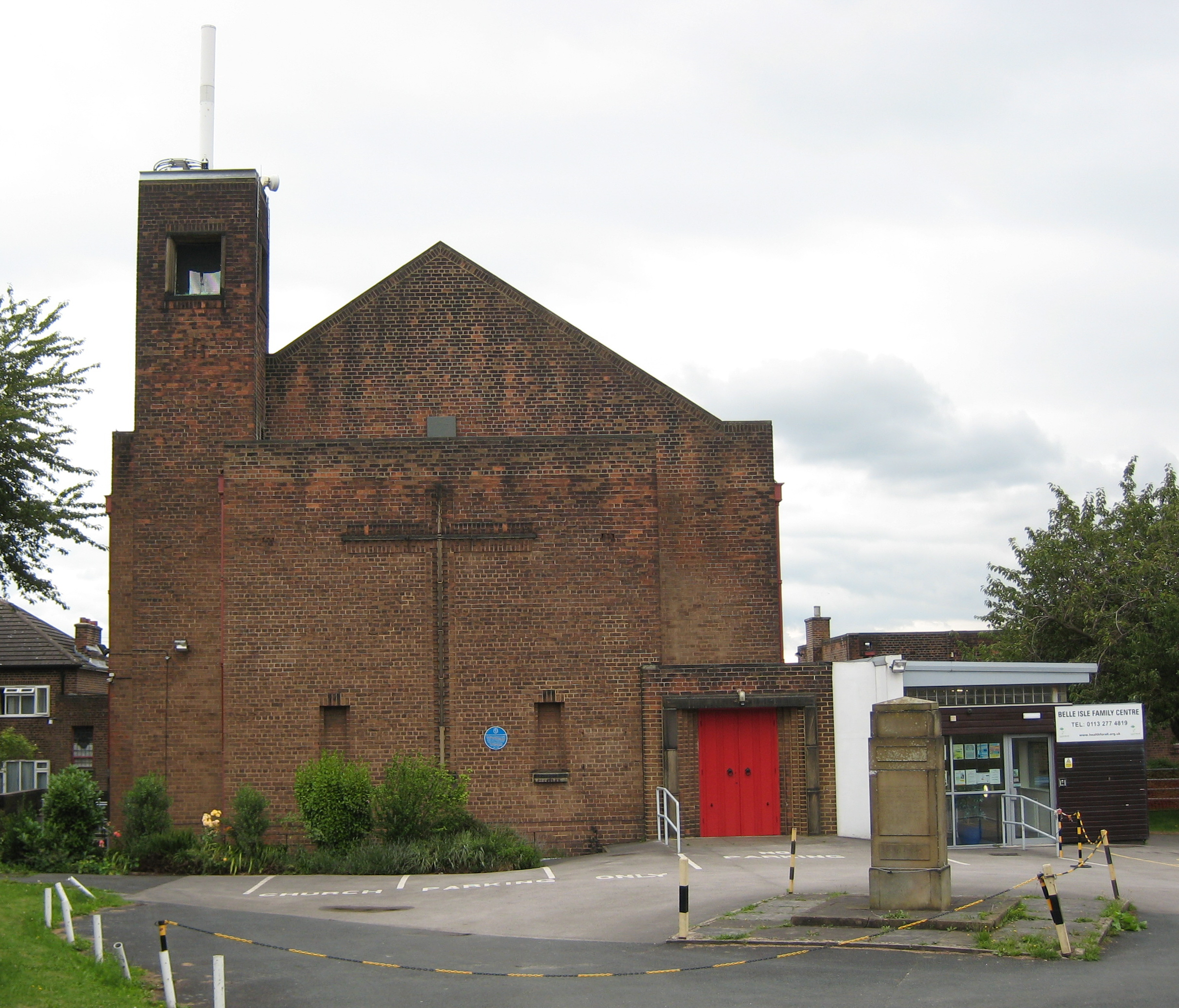 St John & St Barnabas Church, 175, Belle Isle Road, Leeds LS10 3DN. C of E parish church of Belle Isle and Hunslet. Anglo Catholic. Brick built 1938 to replace two churches now demolished. Adjacent is the Belle Isle Family Centre.